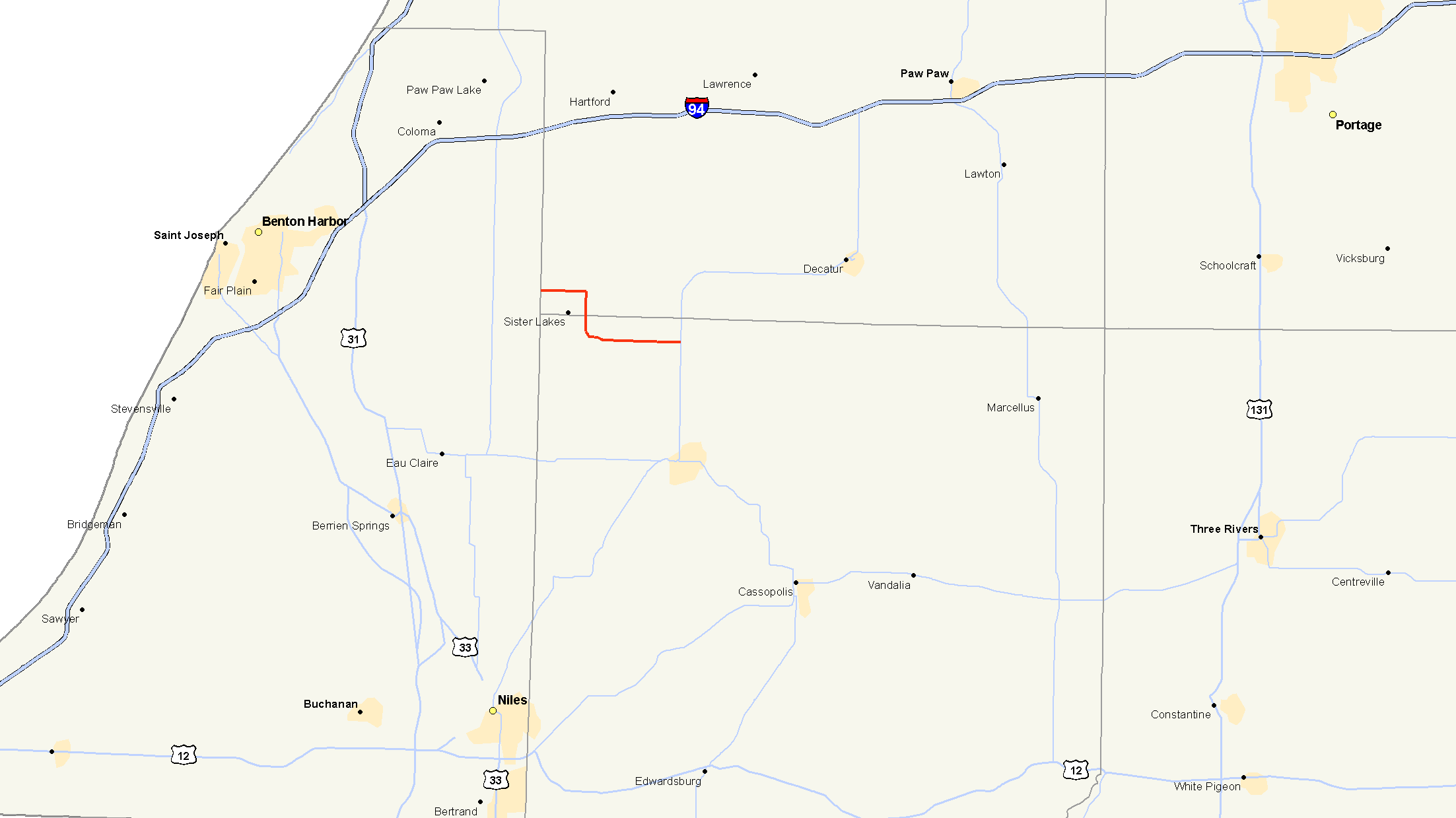 Map of M-152